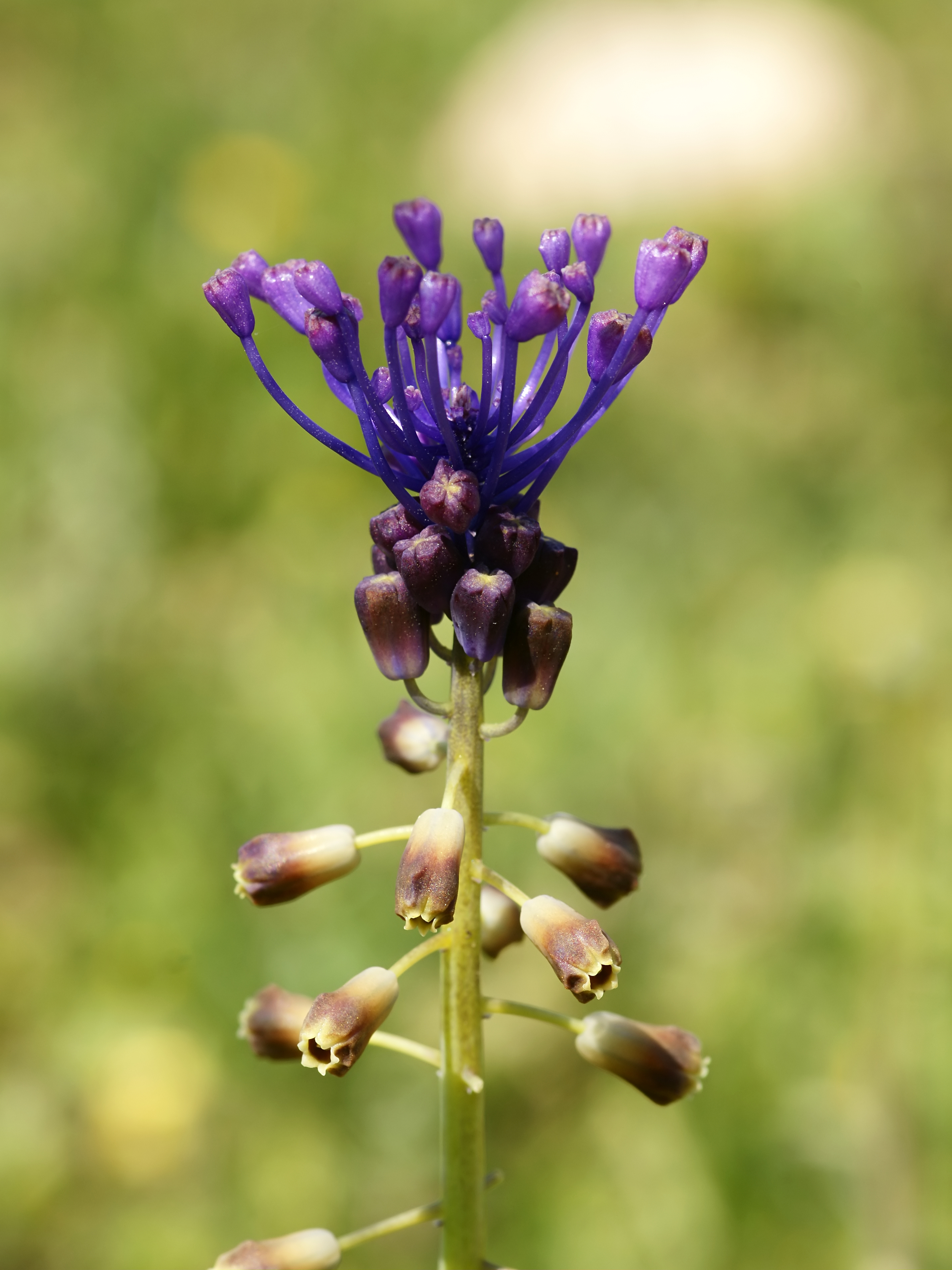 Grape hyacinth near Cala Ses Salinas, Mallorca.